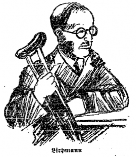 Rudolf Liepmann (1894-after 30 July 1940), German jurist